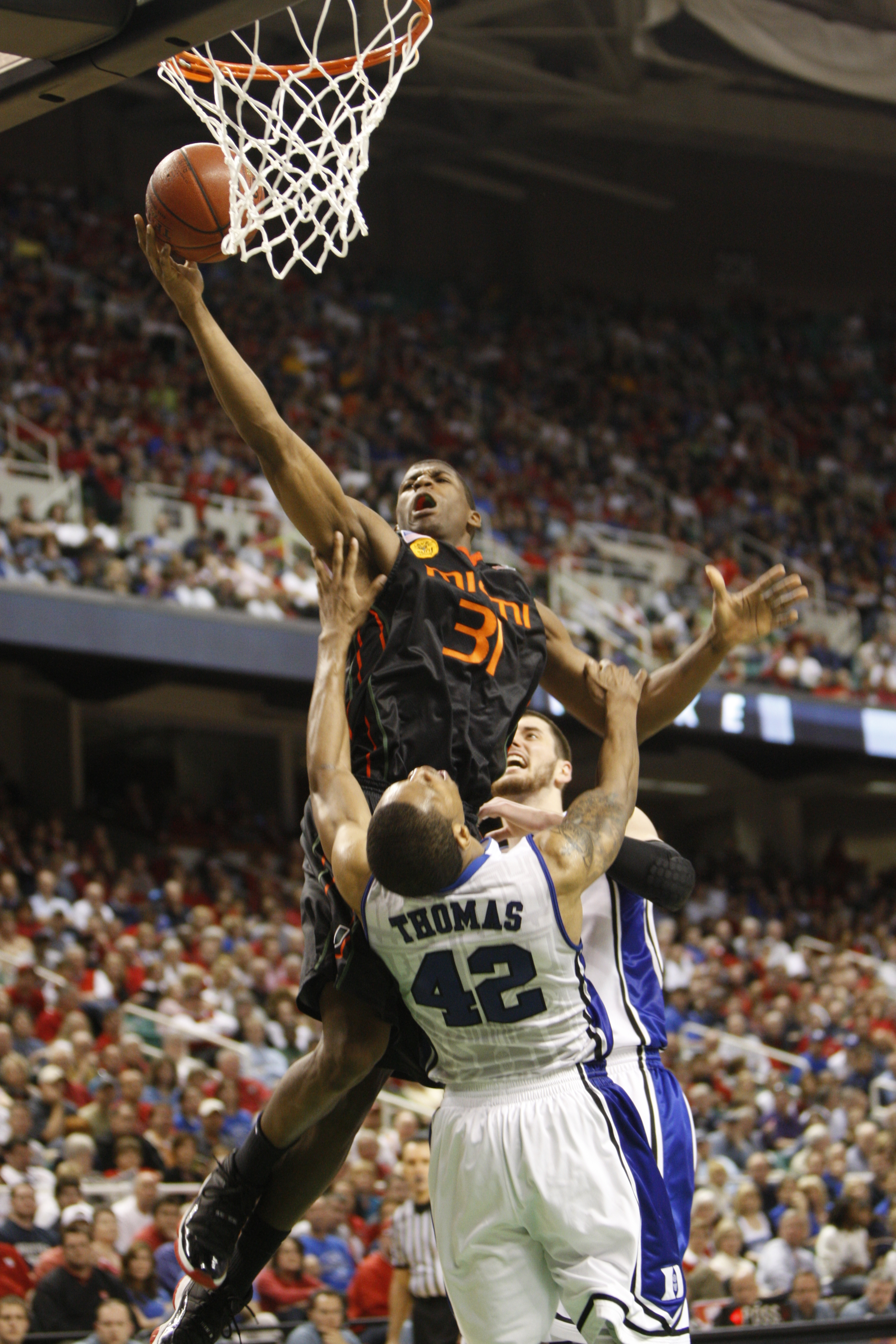 Miami forward DeQuan Jones (31) knocks over Duke forward Lance Thomas (42) during the ACC Men's Basketball Tournament semifinal game.